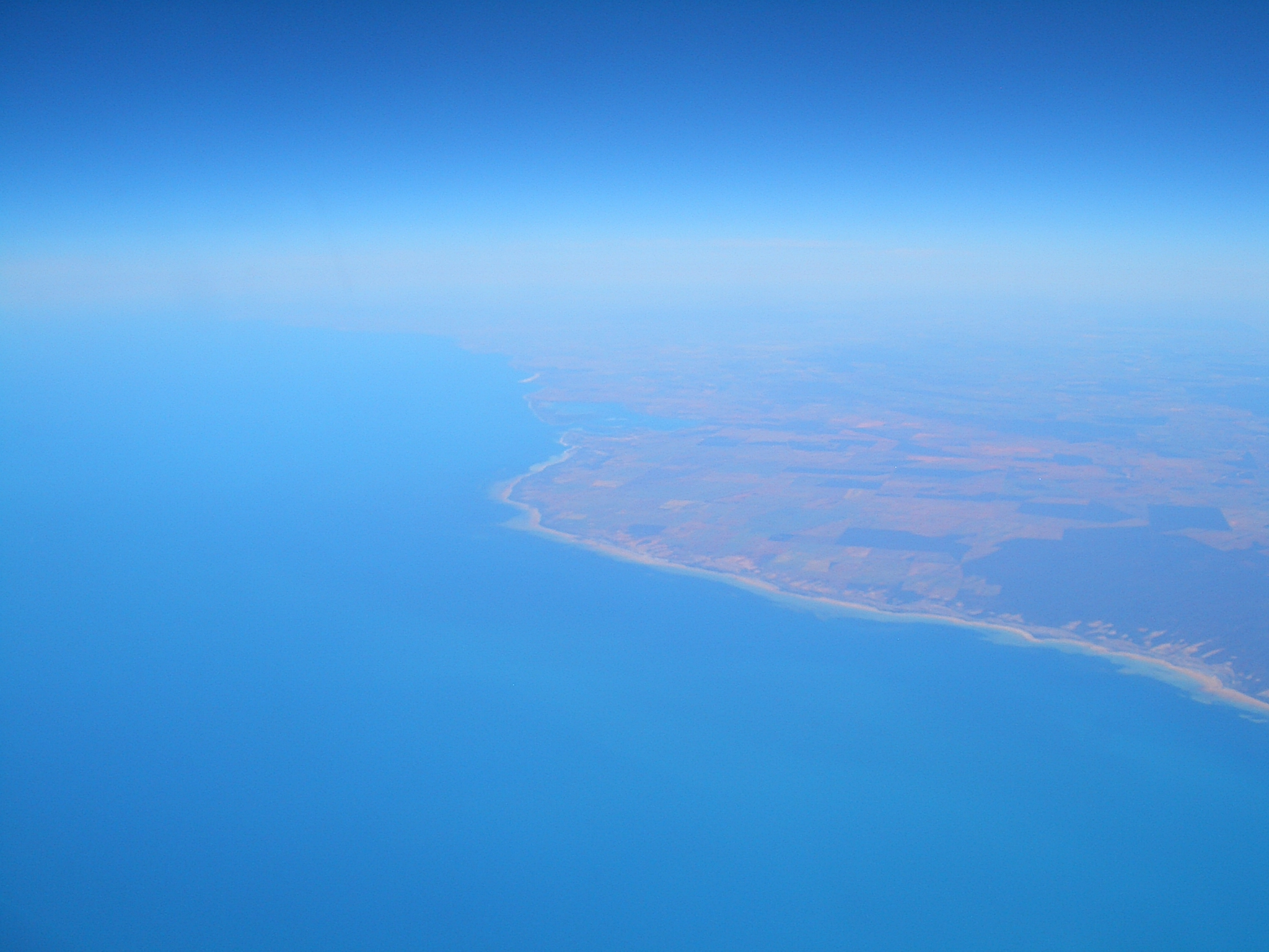 Aerial view of a section of the coast of the north-eastern part of Eyre Peninsula around Cowell. The big lagoon is Franklin Harbour.